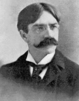 Sir Charles G.D. Roberts Lawrence J. Burpee collection